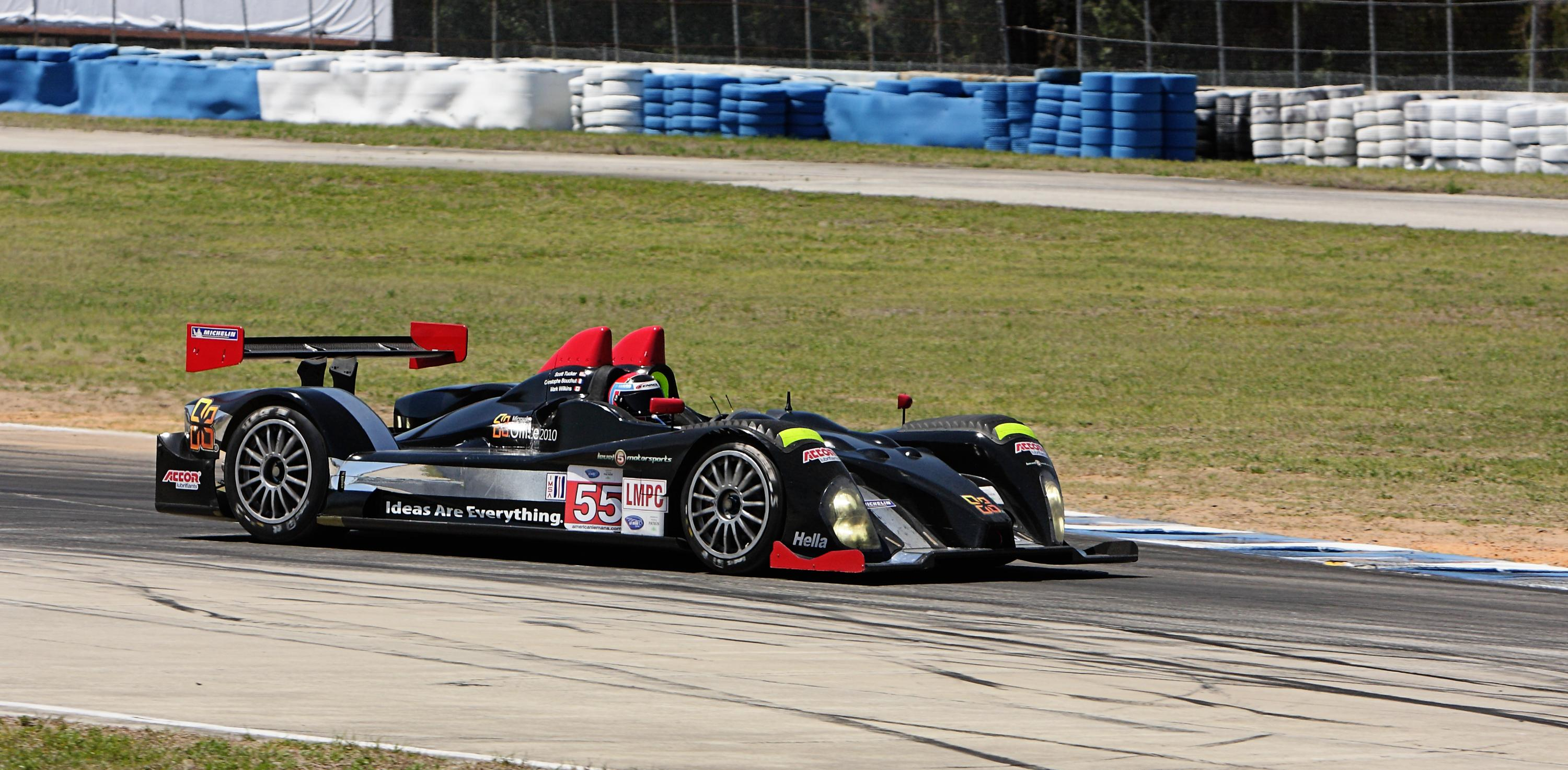 LMPC class winner. #55 Level 5 Motorsports Oreca FLM09 - Chevrolet 6.2 L V8 ~ 2010 12 Hours of Sebring